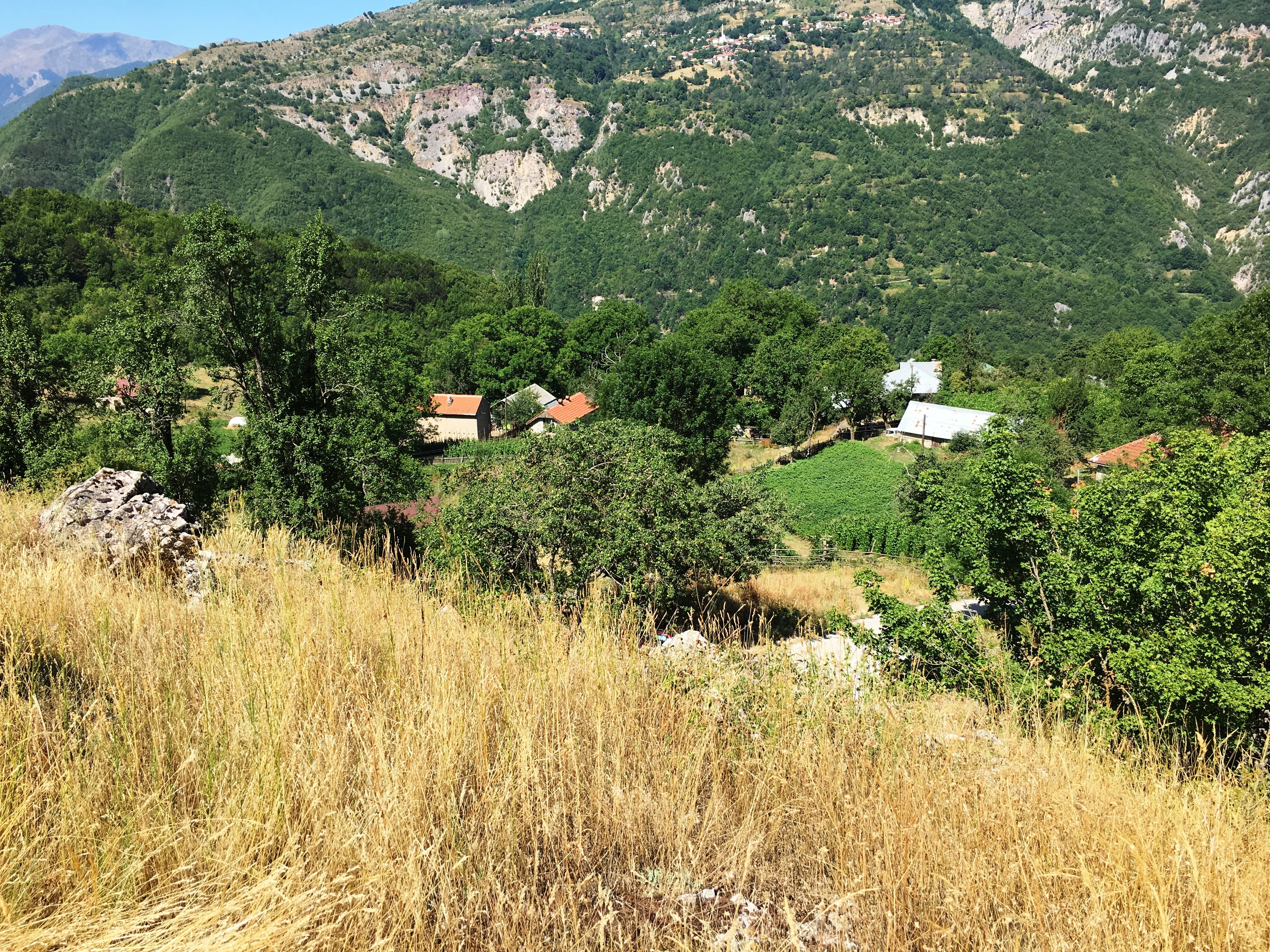 View of the village of Sence